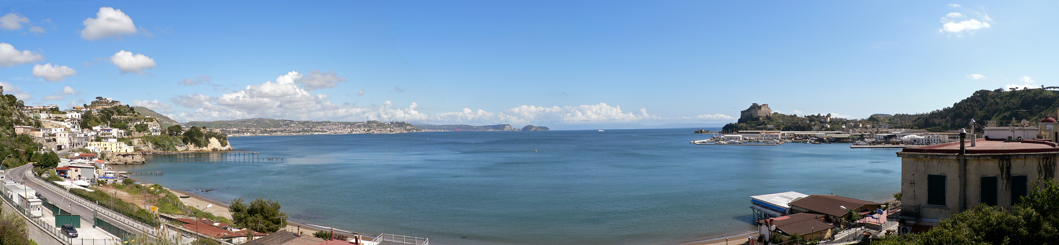 The Bay of Baia, from Villa Schiano di Pepe.